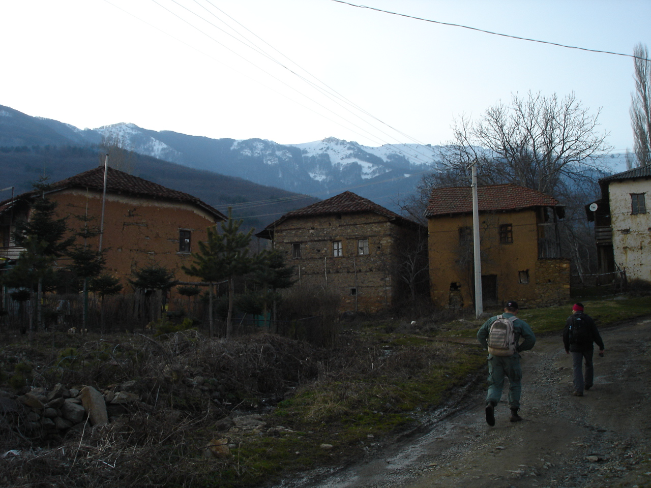 village of Strovija in Dolneni Municipality, near Prilep, Macedonia